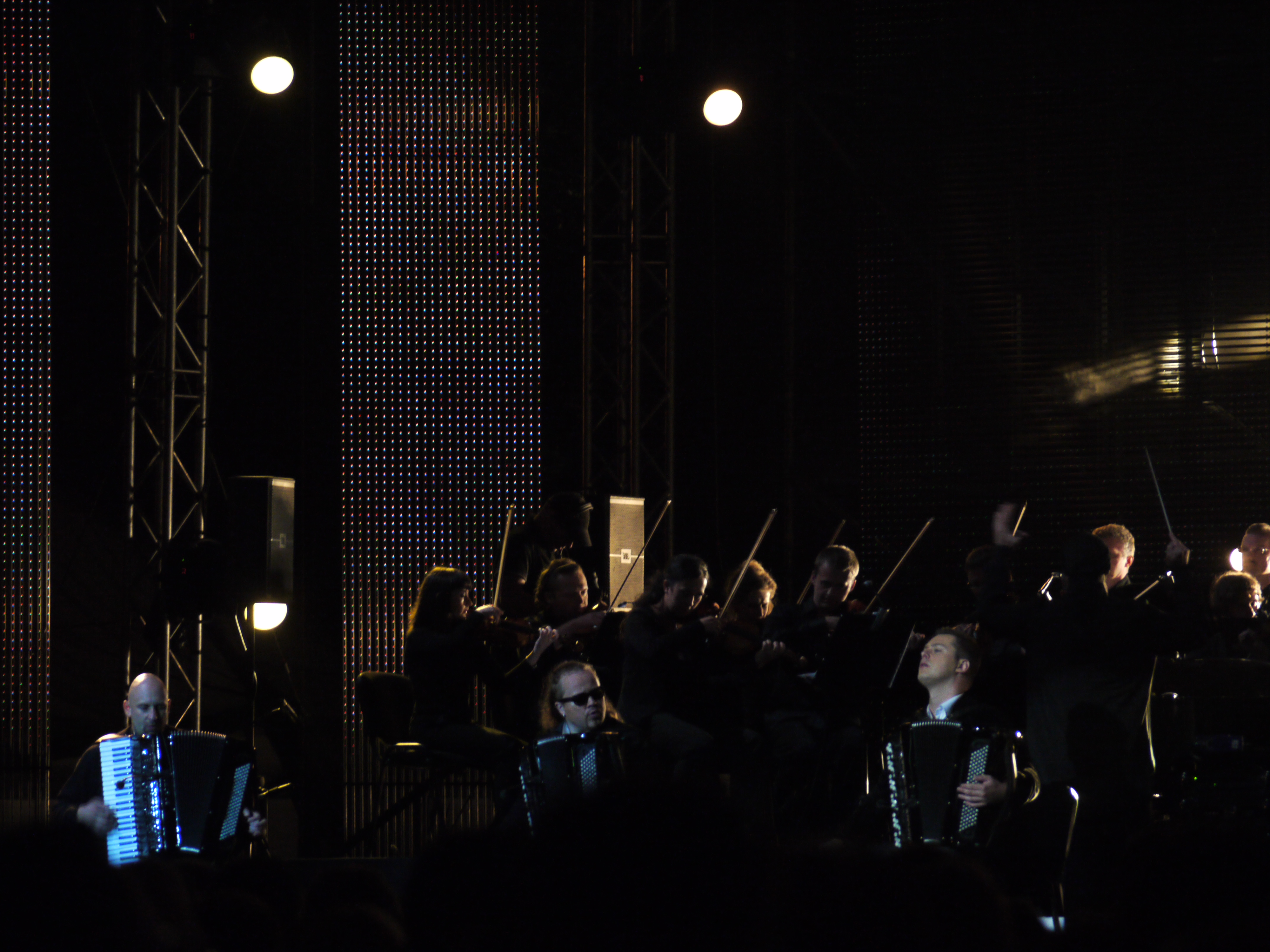 Motion Trio, Aukso & Marek Moś